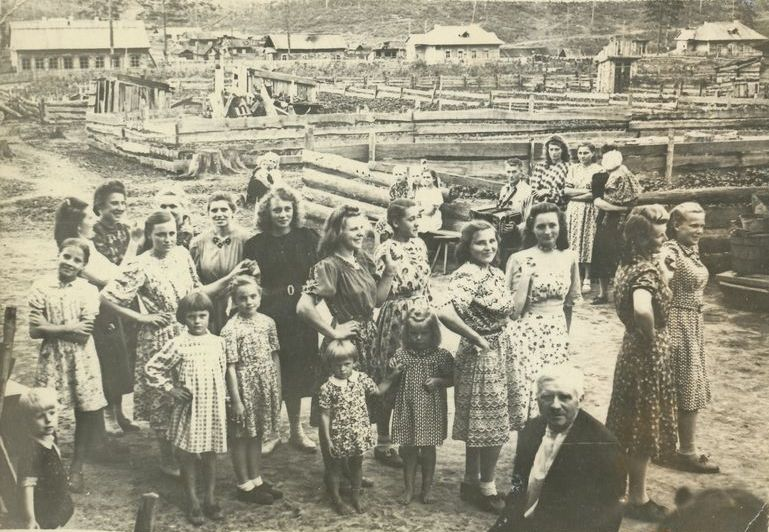 A group of Lithuanian deportees in Mezhduganki (Междугранки) village, Ziminsky District, Irkutsk Oblast